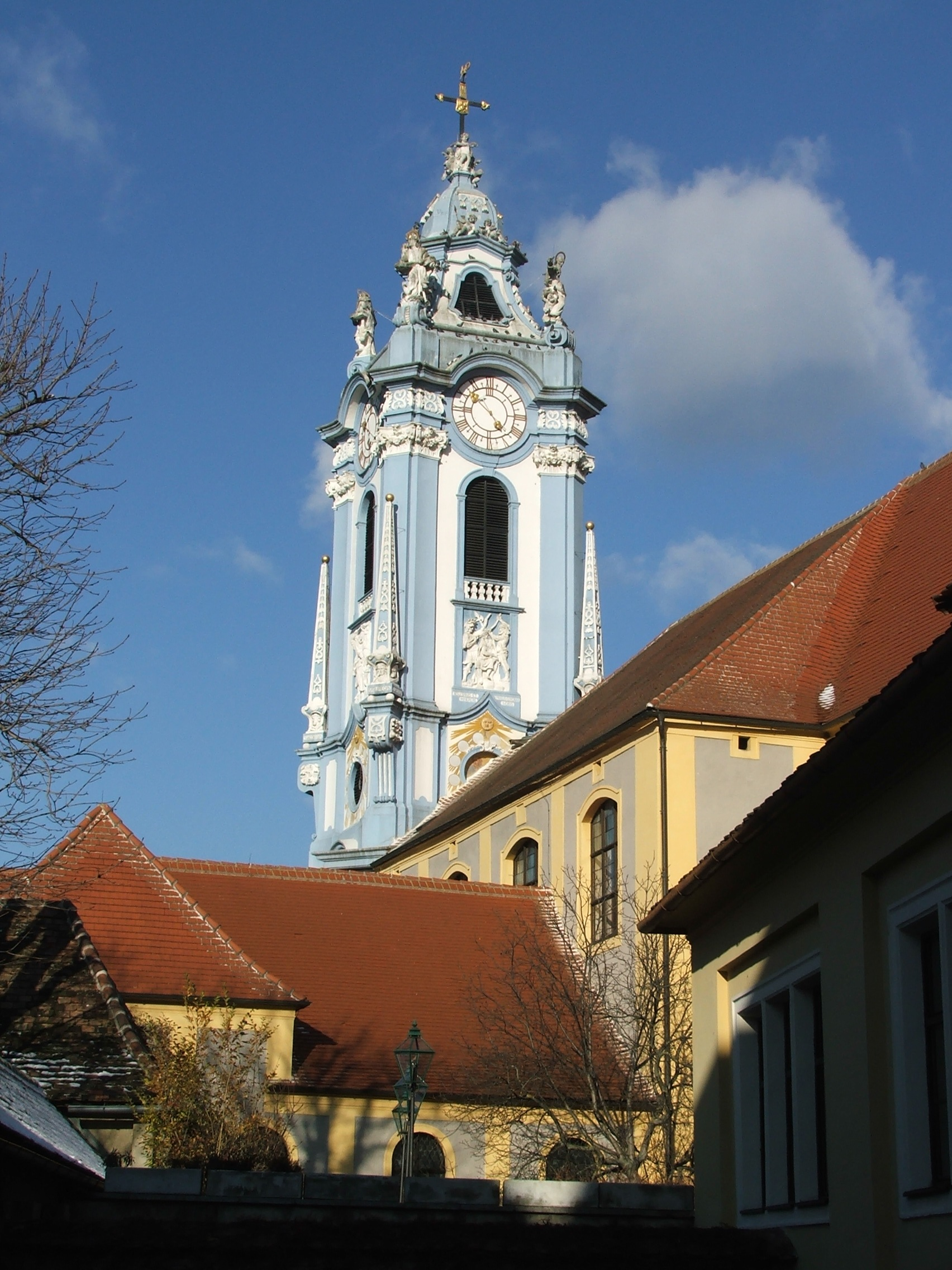 Tower of the Dürnstein Abbey.